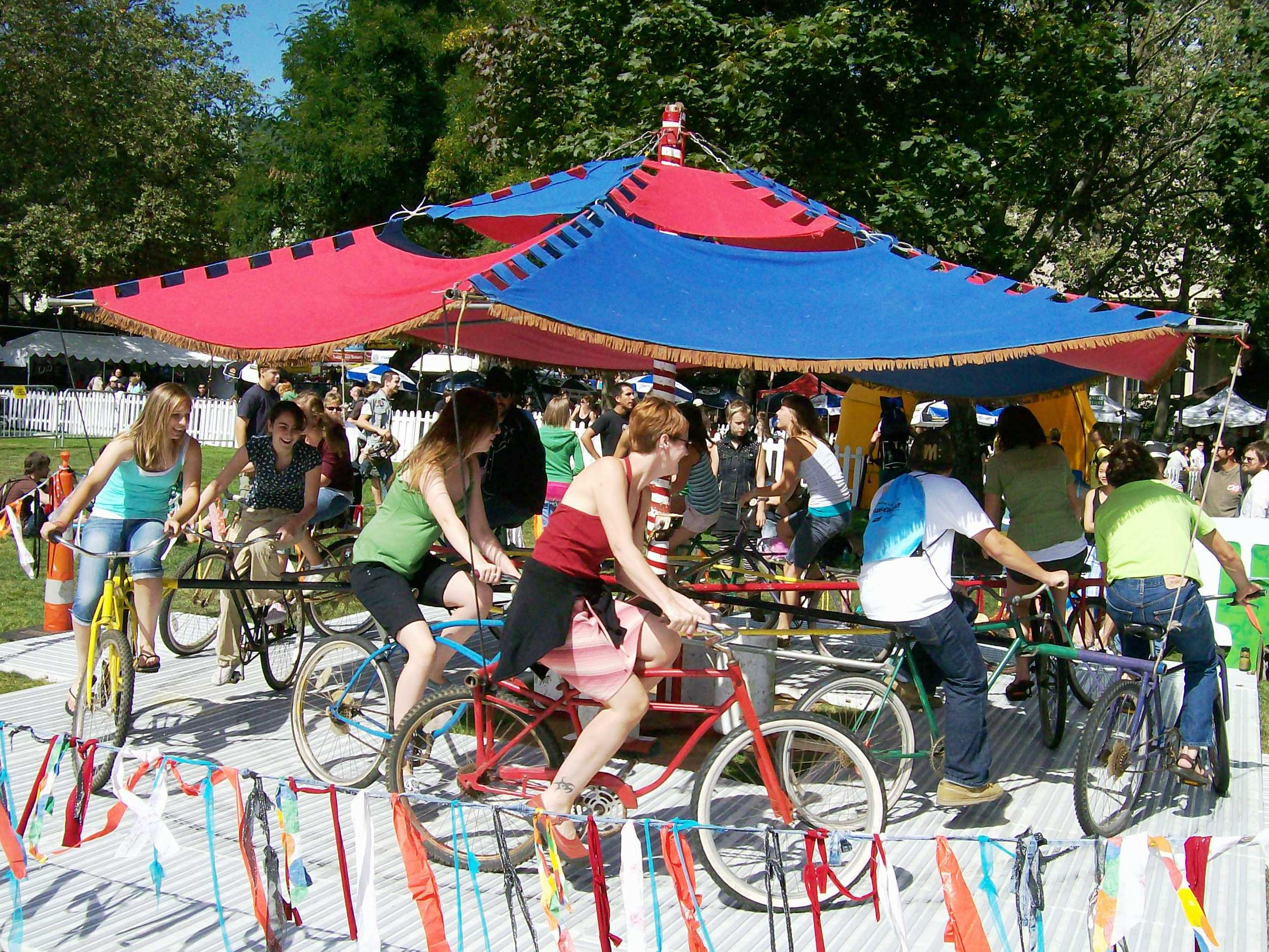 Cyclecide bicycle carousel at Bumbershoot 2007, Seattle, Washington. Photo by Dave Cohoe (2007).